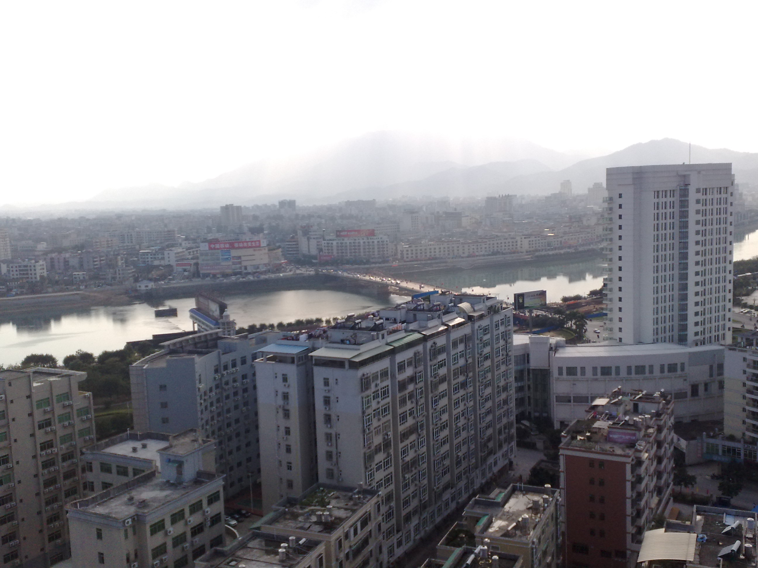 Overlooking Shangcheng